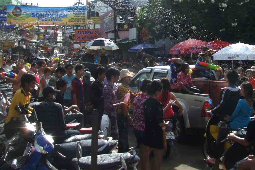 Song Kran 2012, Chaweng Beach, Koh Samui, Thailand